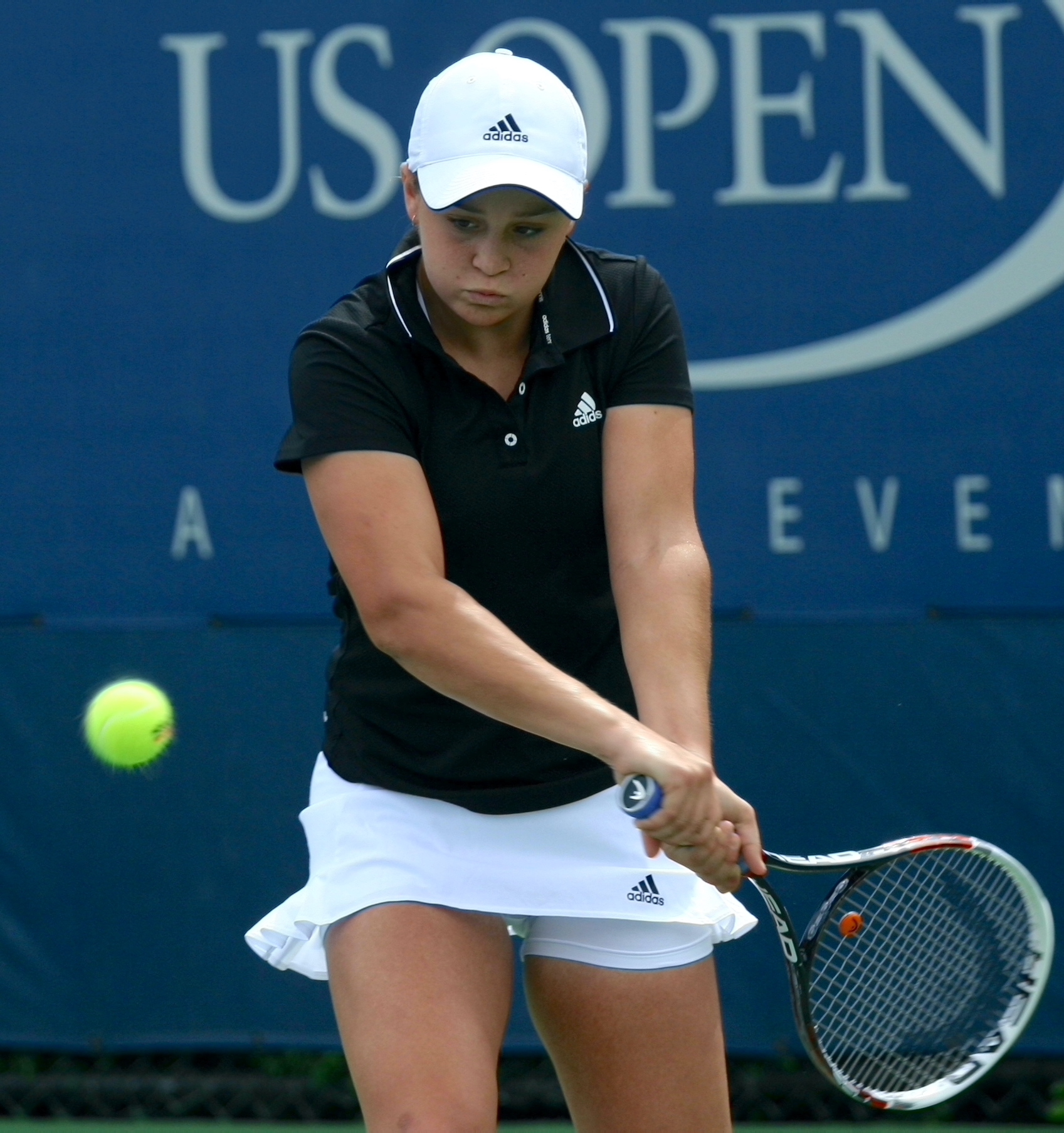 Friday, August 30